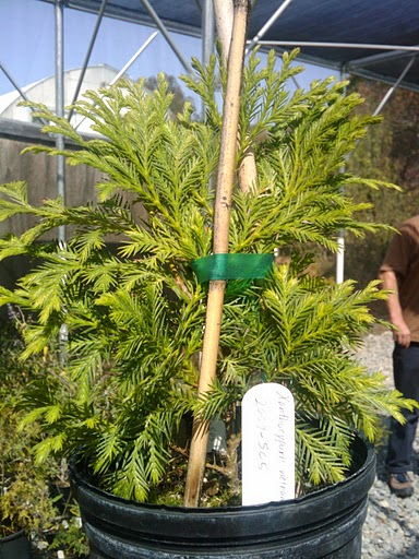 Vietnamese Golden Cypress.